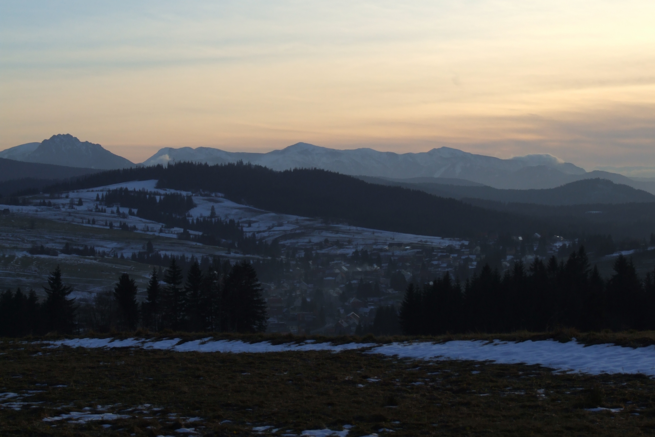 Malá Fatra in the evening. View from Oravská Lesná